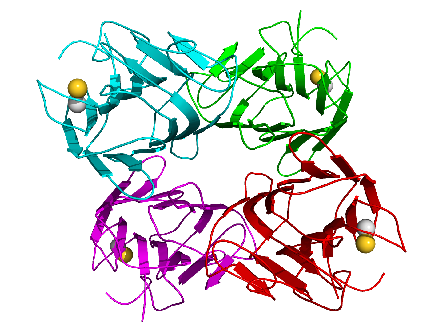 Crystallographic structure of concanavalin A based on the PDB: 3CNA​ crystallographic structure. Graphic rendered with PyMol.